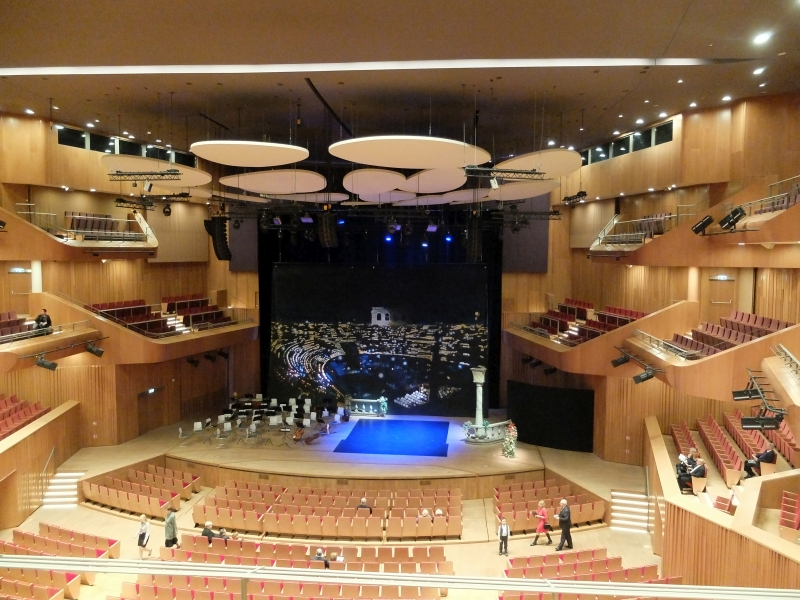 Kraków Congress Centre interior, auditorium